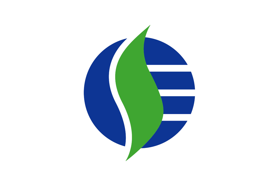 Flag of Ise, Mie